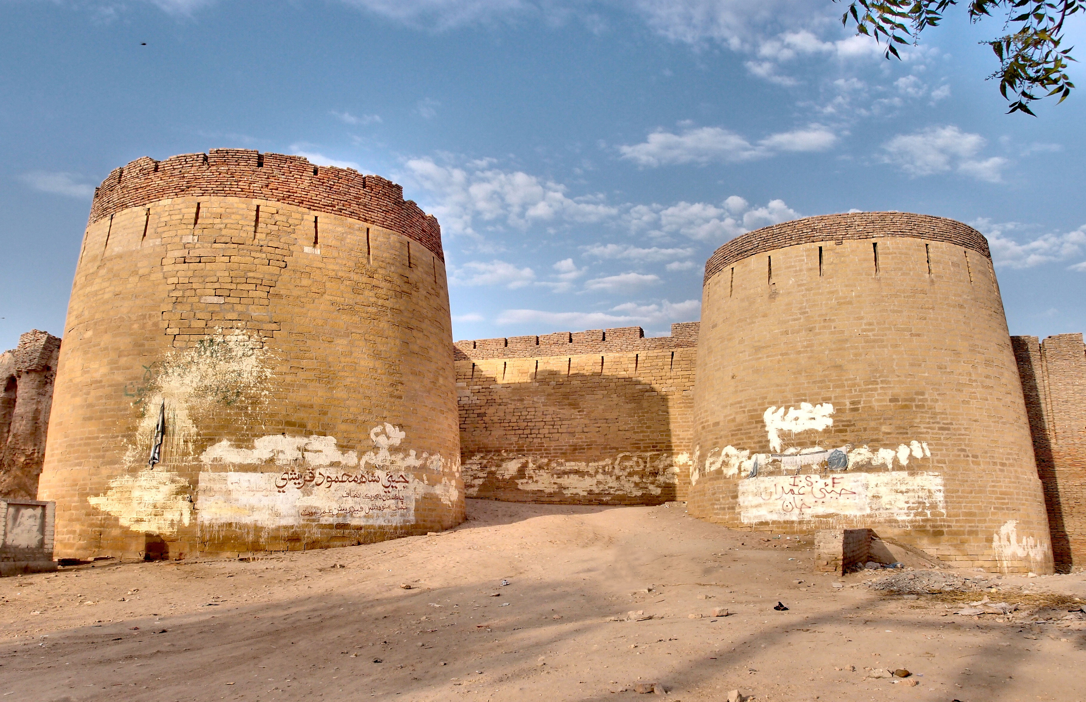 Fort Tower of Umarkot Fort in Pakistani city of Umerkot. Emperor Akber was born inside the Umarkot Fort when his father Humayun fled from the military defeats at the hands of Sher Shah Suri on 15 October 1542.